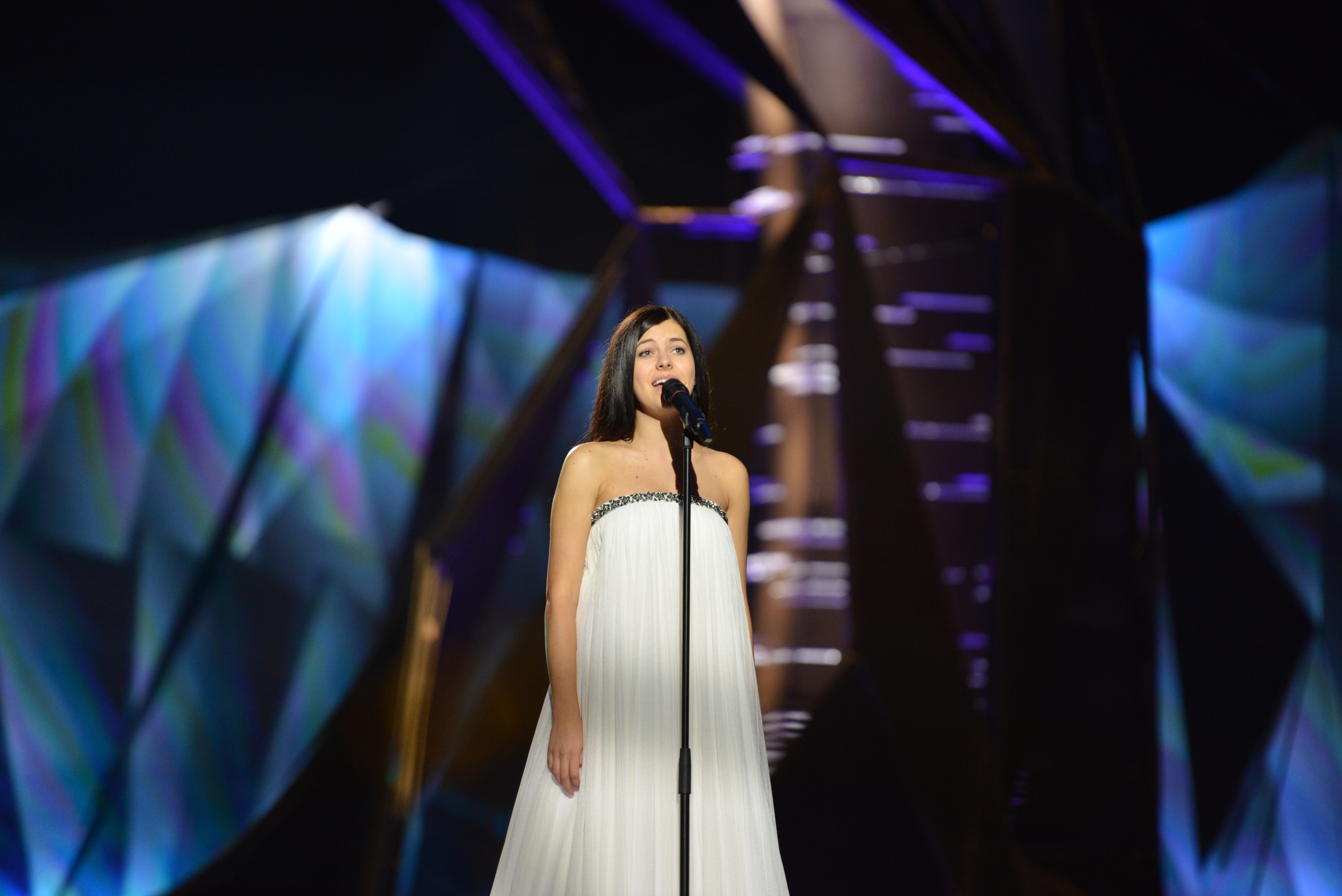 Birgit representing Estonia with the song "Et uus saaks alguse" during the first dress rehearsal of the first semi final of the Eurovision Song Contest 2013 in Malmö. (Help translate this text)